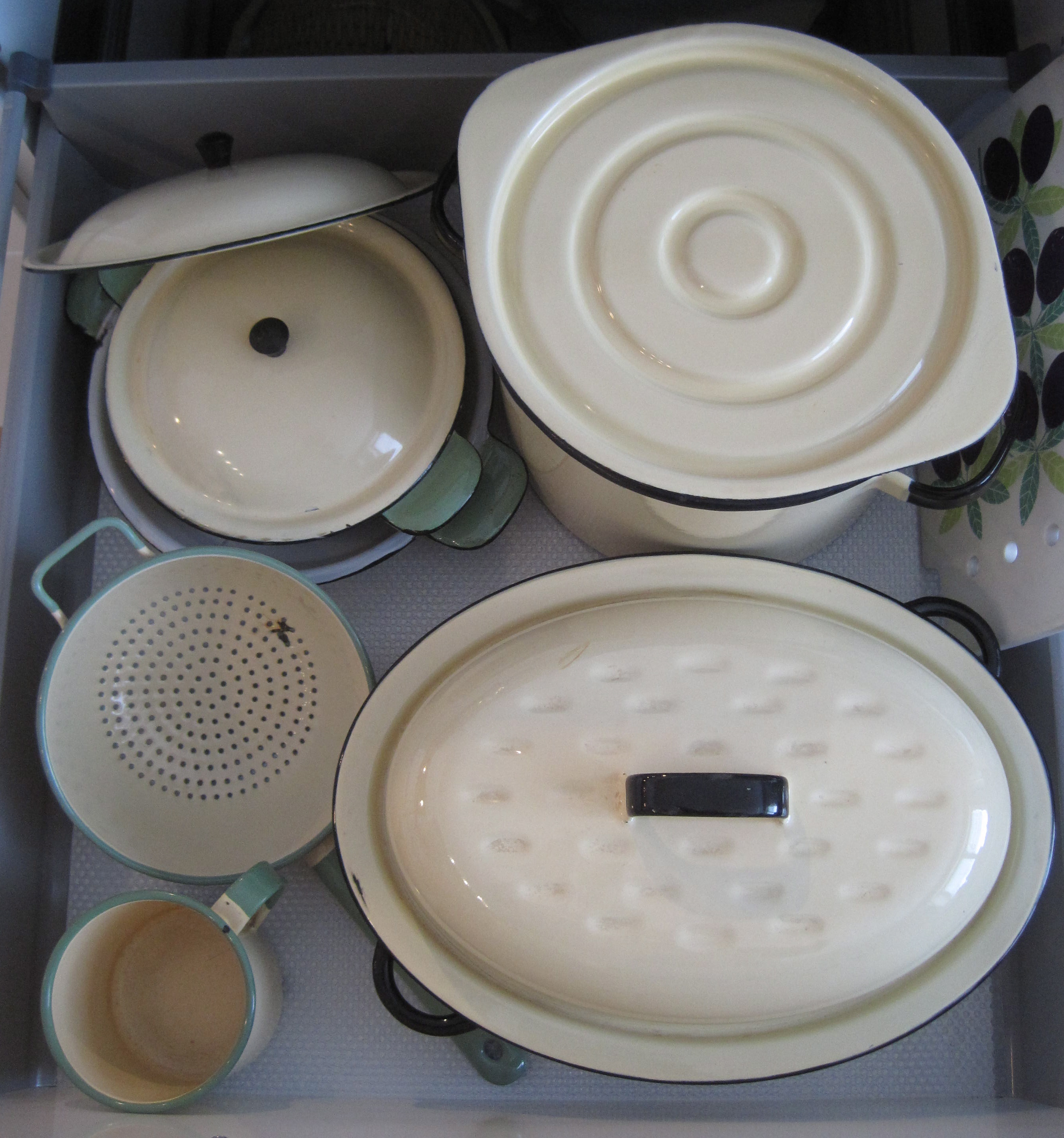 Mixed kitchenware made by Kockums emalj.